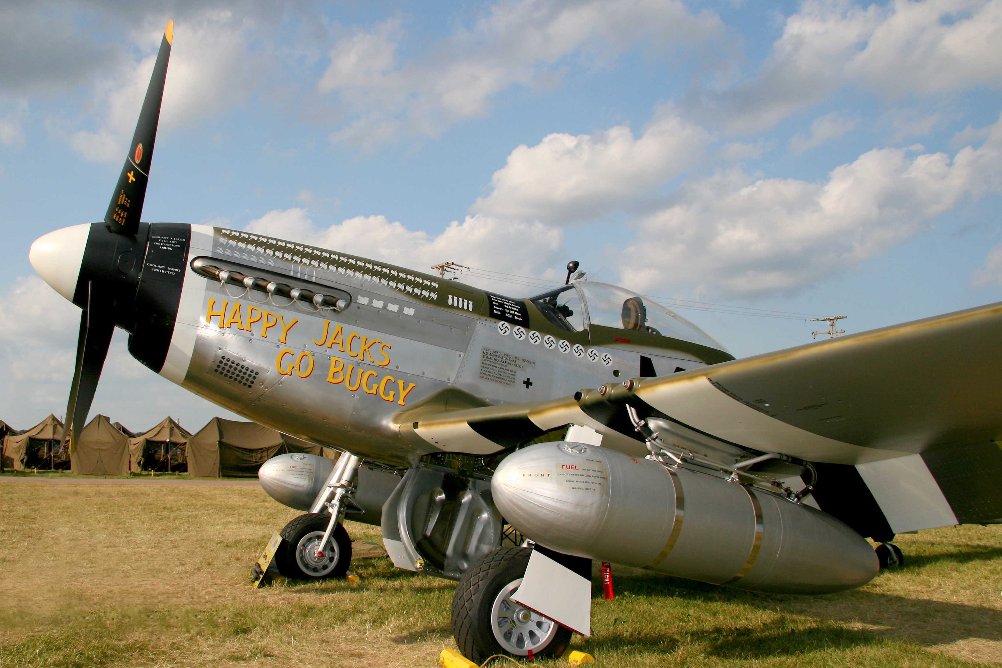 P-51D Mustang " Happy Jack's Go Buggy " at AirVenture 2008